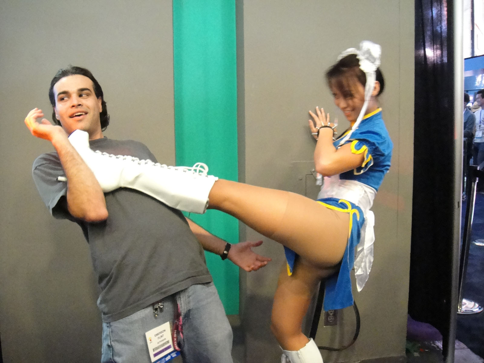 photo 2011 taken by Doug Kline If you're interested in higher resolution versions of my images, contact me via my profile page.